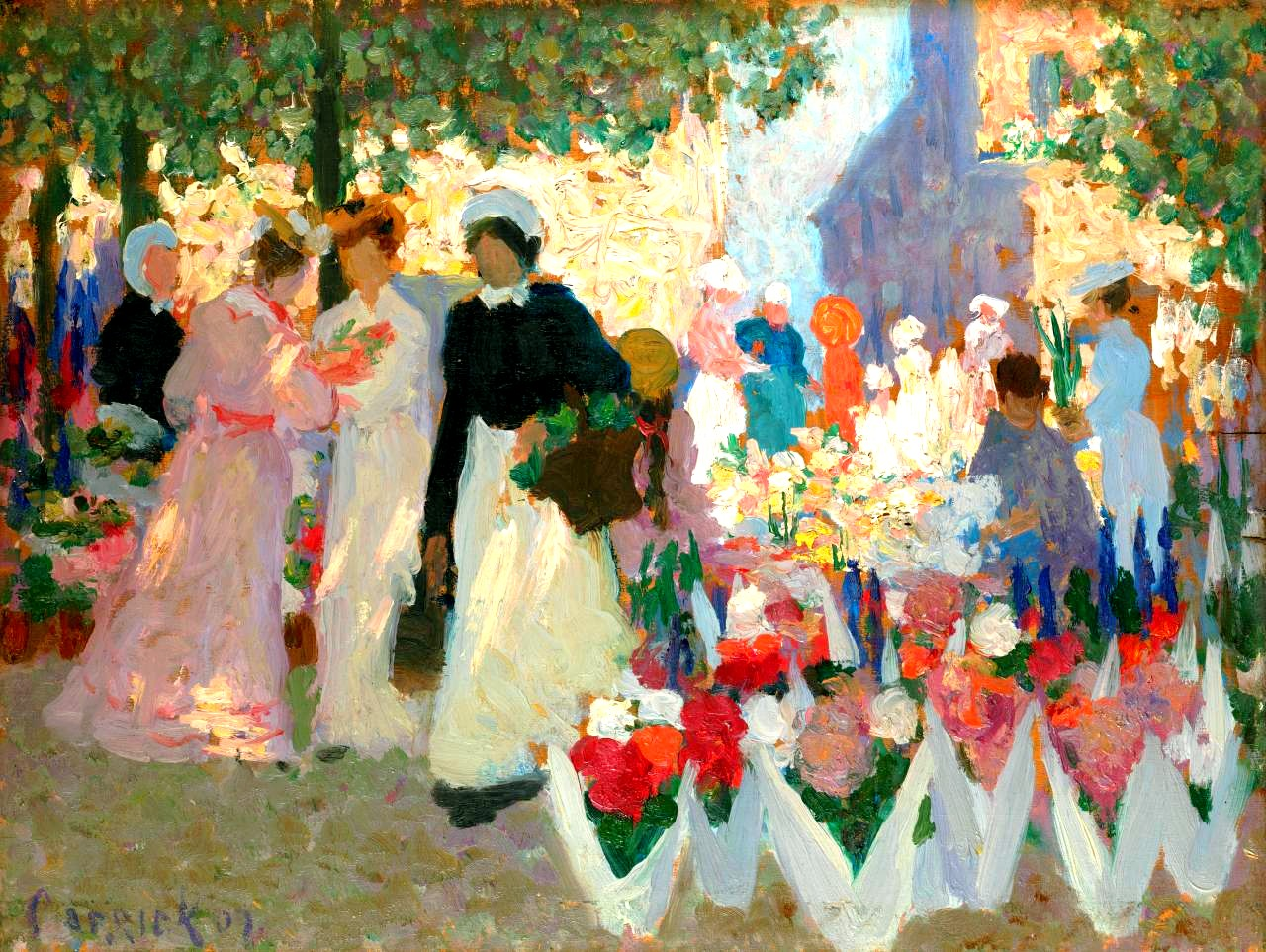 Paris. Flower market. Оil on wood panel, 26.4 × 35.0 cm National Gallery of Victoria, Melbourne.